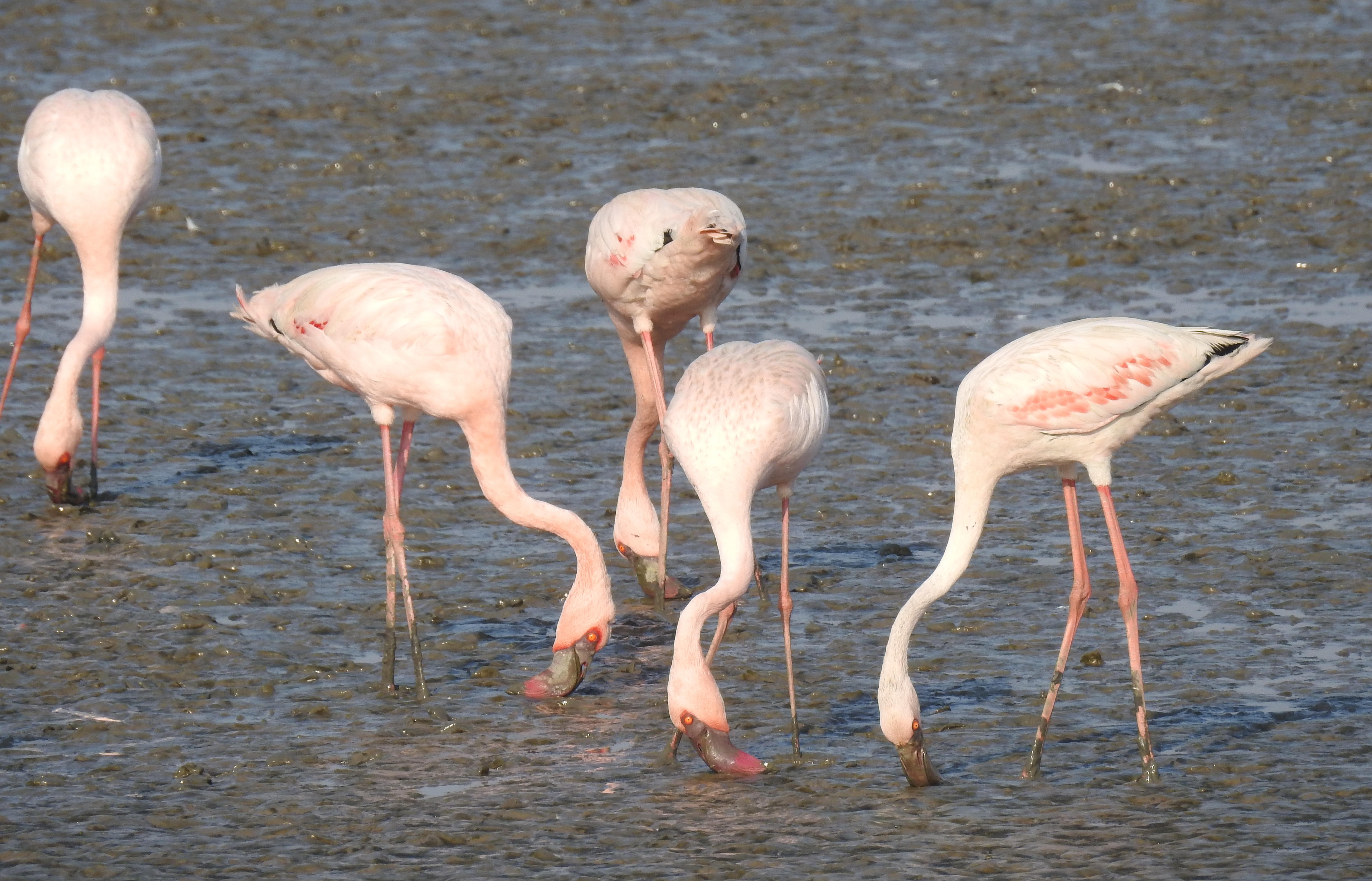 Lesser Flamingo Phoenicopterus minor. Photographed by Dr. Raju Kasambe at Mahul-Sewri Mudflats, Mumbai. This is an Important Bird area (IBA) as designated by BNHS and BirdLife International.